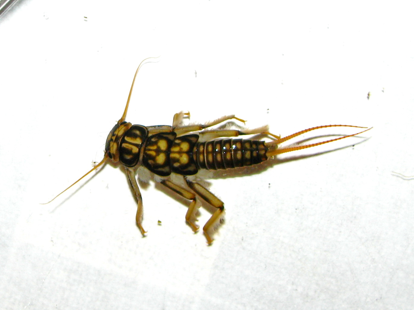 Perla bipunctata larva from Lisinska river, SE Serbia.